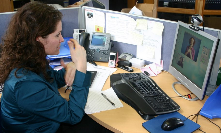 A Deaf, Hard-Of-Hearing or Speech-Impaired person at her workplace, communicating with a hearing person via a Video Interpreter (a Sign Language interpreter, shown on-screen), using a webcam and a videotelecommunications program on her computer. Note the additional videophone on the left side of her desk.